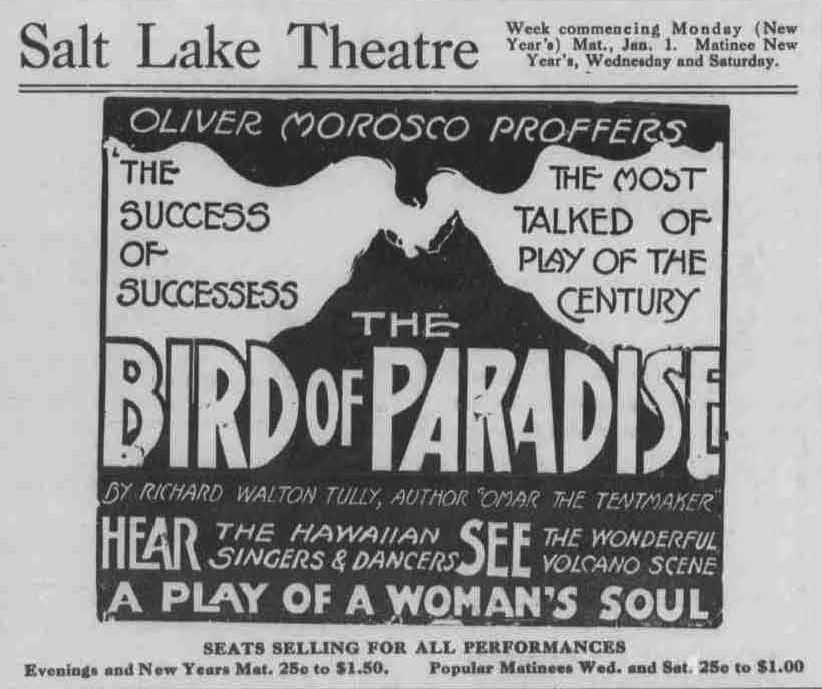 An advertisement for the famous play The Bird of Paradise. The Broadway show introduced Hawaiian music to many Americans from 1912. Goodwin's Weekly: a thinking paper for thinking people, December 30, 1916, Page 10, Image 10 From the University of Hawaiʻi at Manoa Library